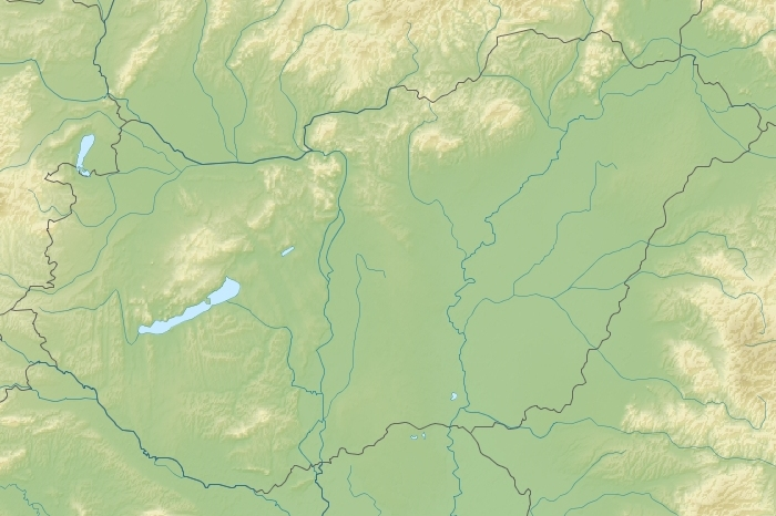 Relief location map of Hungary. Projection: Equirectangular projection, strechted by 148.0%. Geographic limits of the map: N: 48.75° N S: 45.60° N W: 16.00° E E: 23.00° E